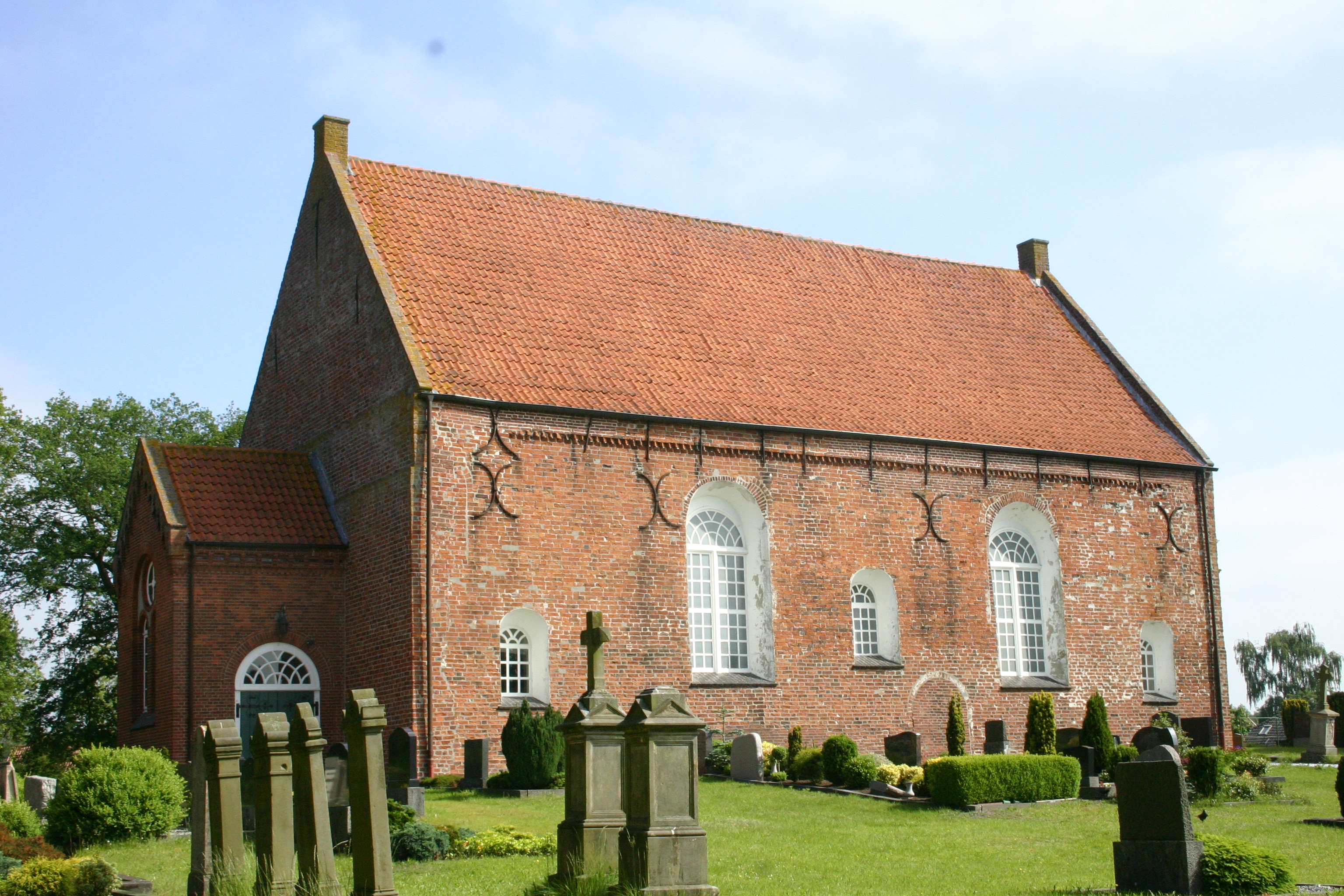 Historic church in Ihrhove, district of Leer, East Frisia, Germany